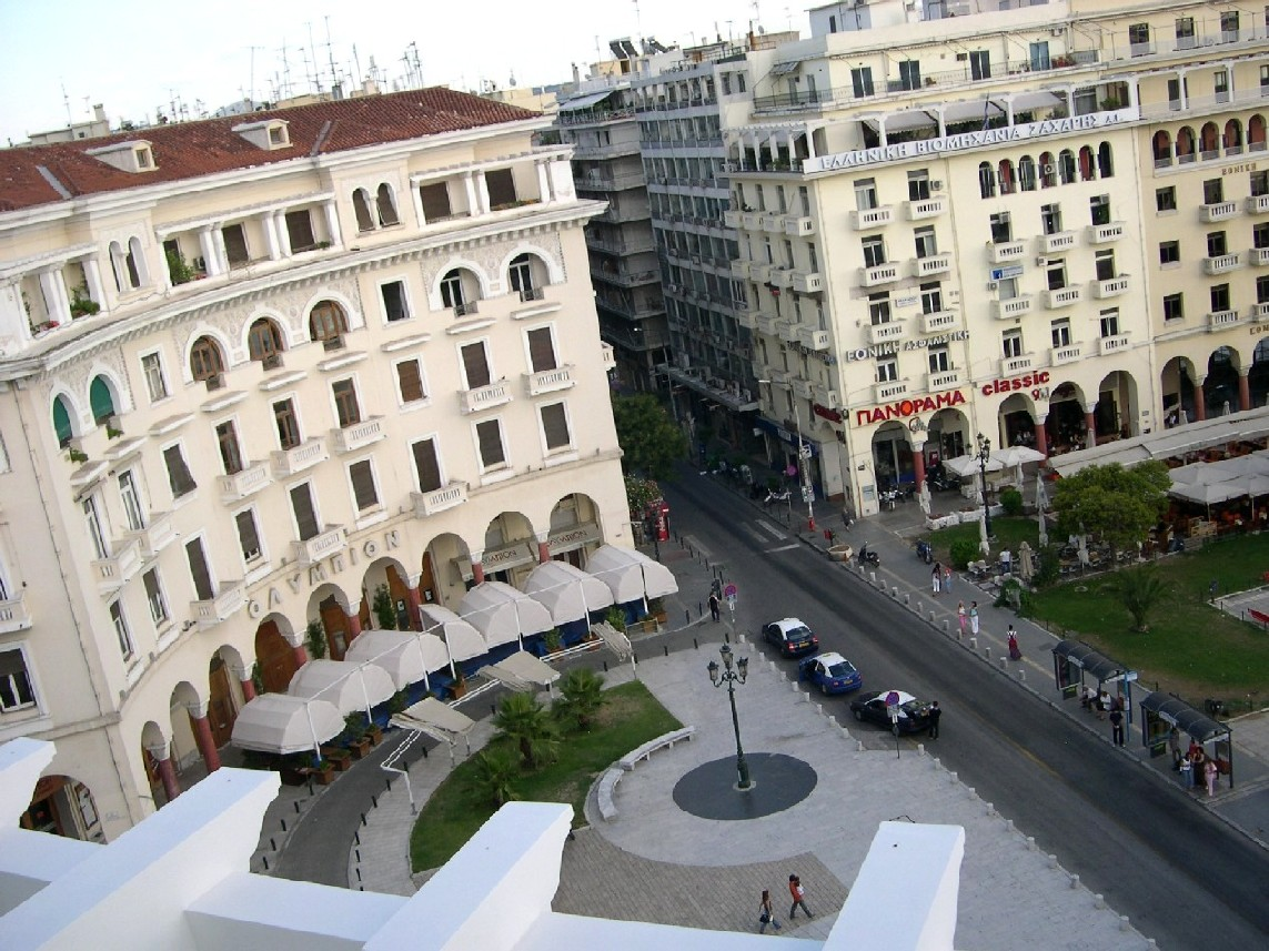 Looking down at Aristotelous Square in Thessaloniki, Greece. The building on the left is the Olympion Theatre.